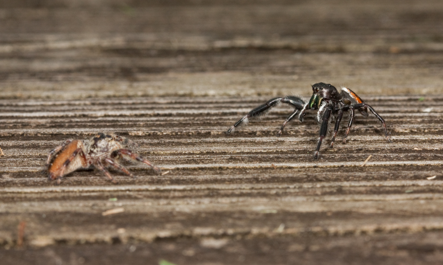 Male (right) and female (left) Phidippus clarus jumping spiders in courtship dance.